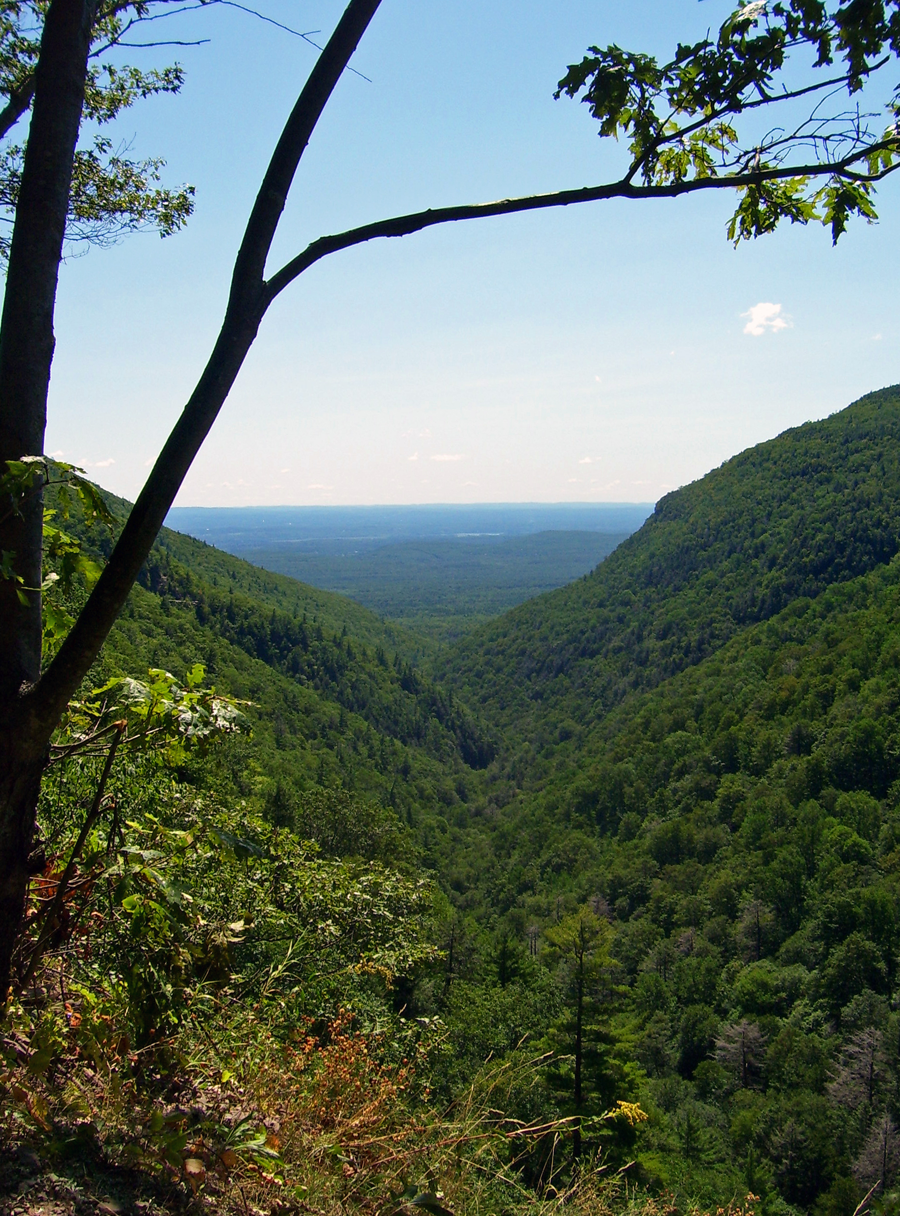 View looking out over Platte Clove in the Catskills. Hudson River and Taconics visible in the distance